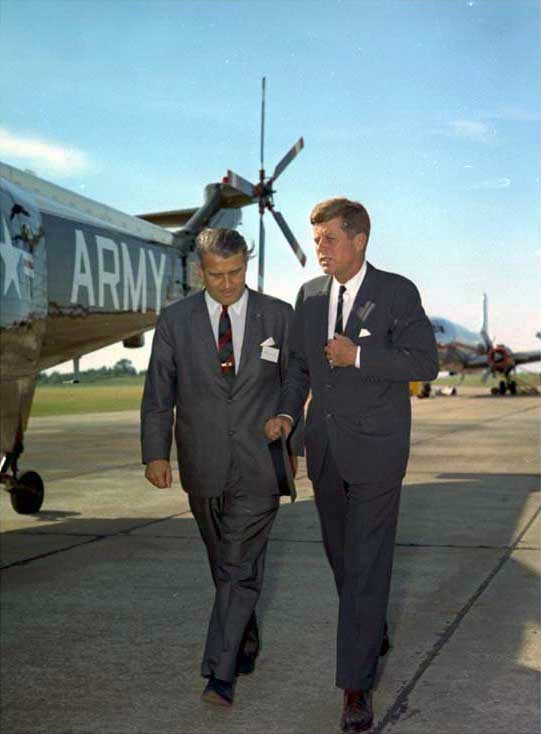 Wernher von Braun walking with President Kennedy at the Army Ballistic Missile Agency at Redstone Arsenal (Alabama) in 1963.